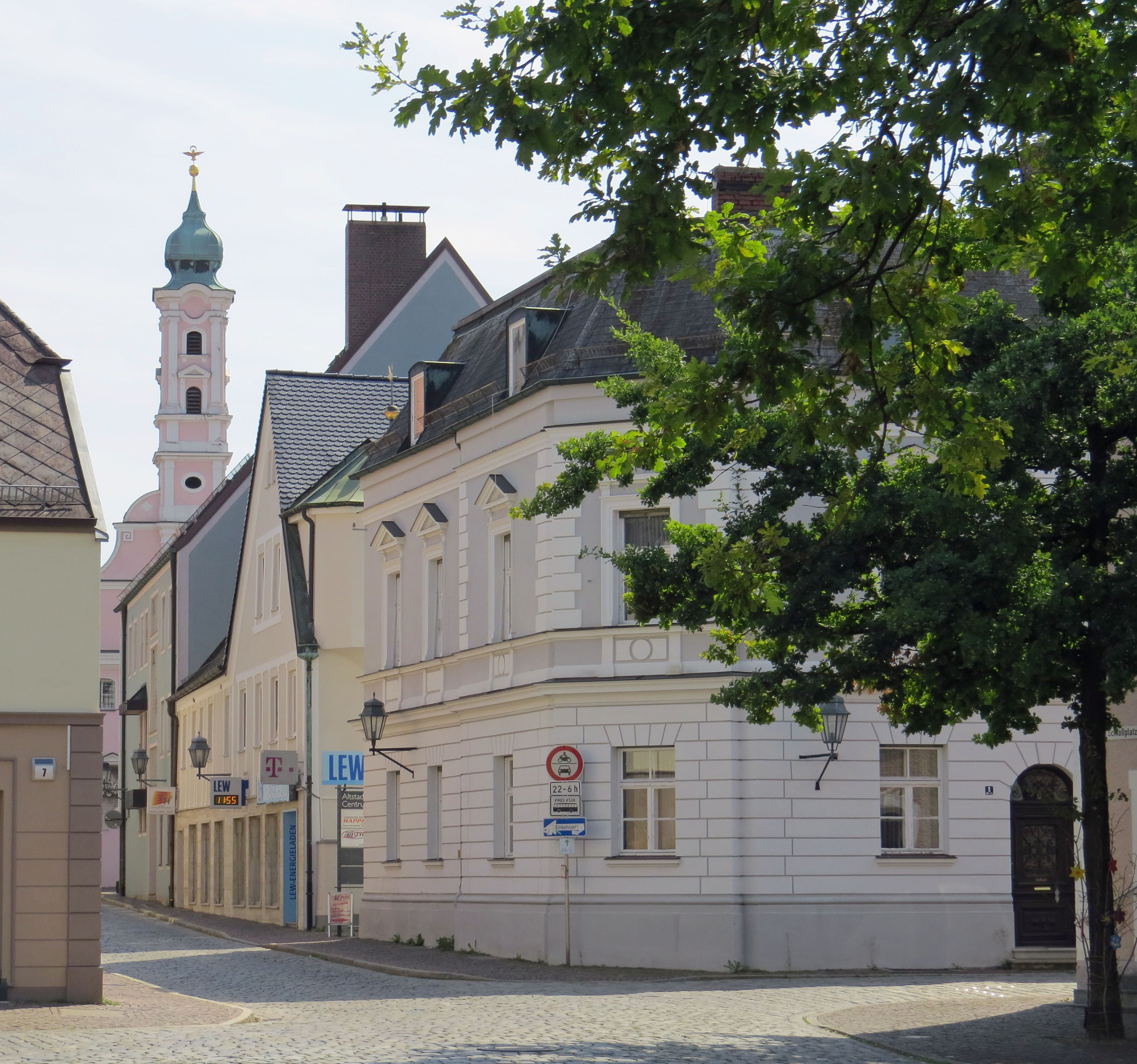 Schneidergasse 1 in Aichach